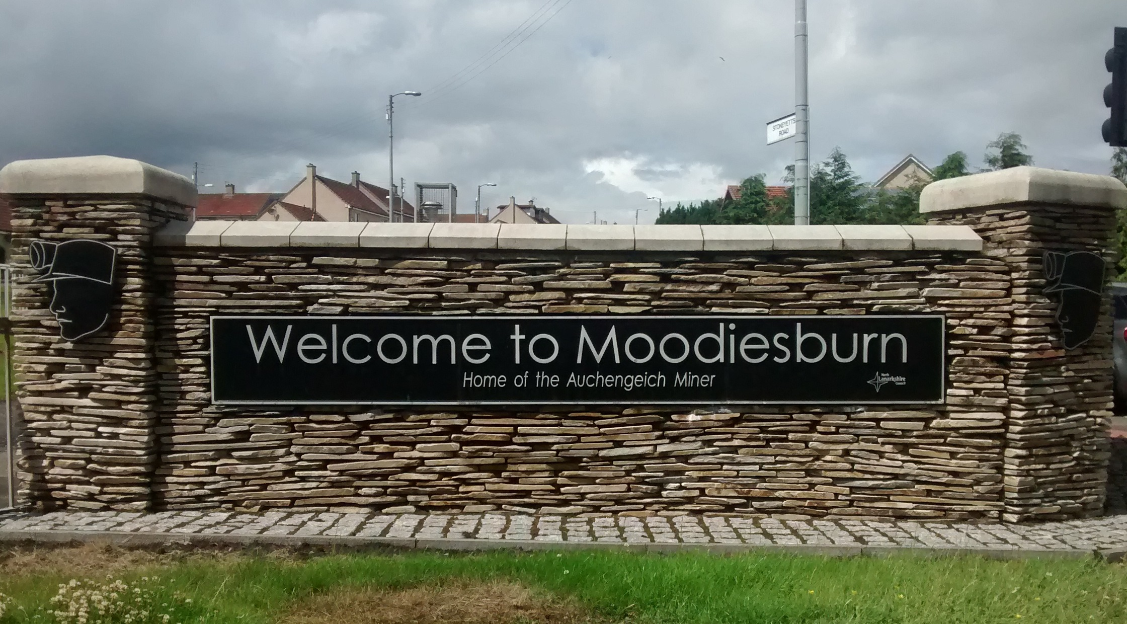 Welcome to Moodiesburn.